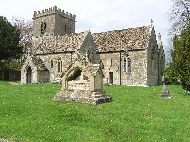 Parish church of St John the Baptist, Hinton Charterhouse, Somerset, seen from the southeast. In the foreground is the chest tomb of Thomas Marlbro, who died in 1853.